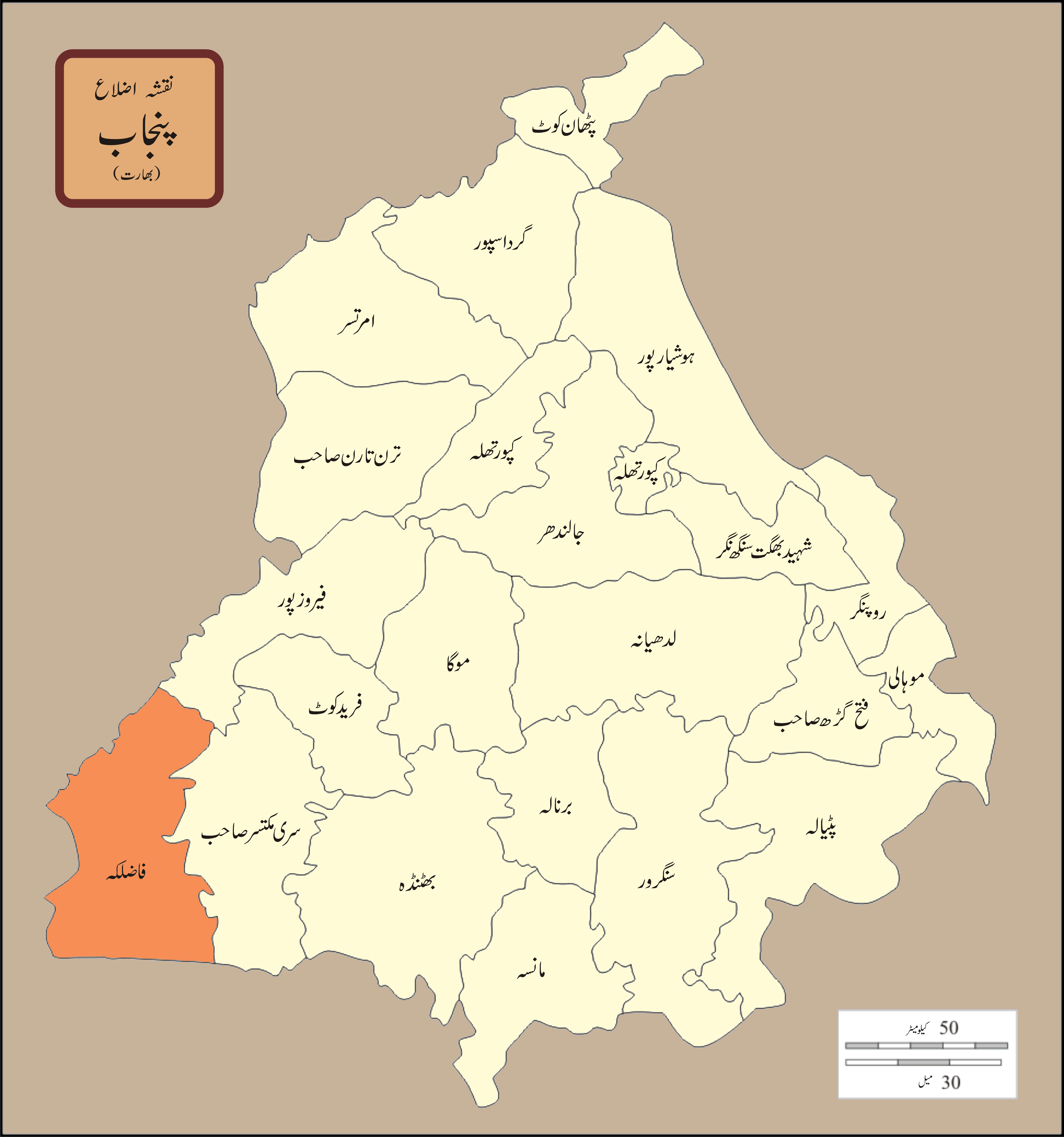 Punjab India Dist Fazilka (Urdu)